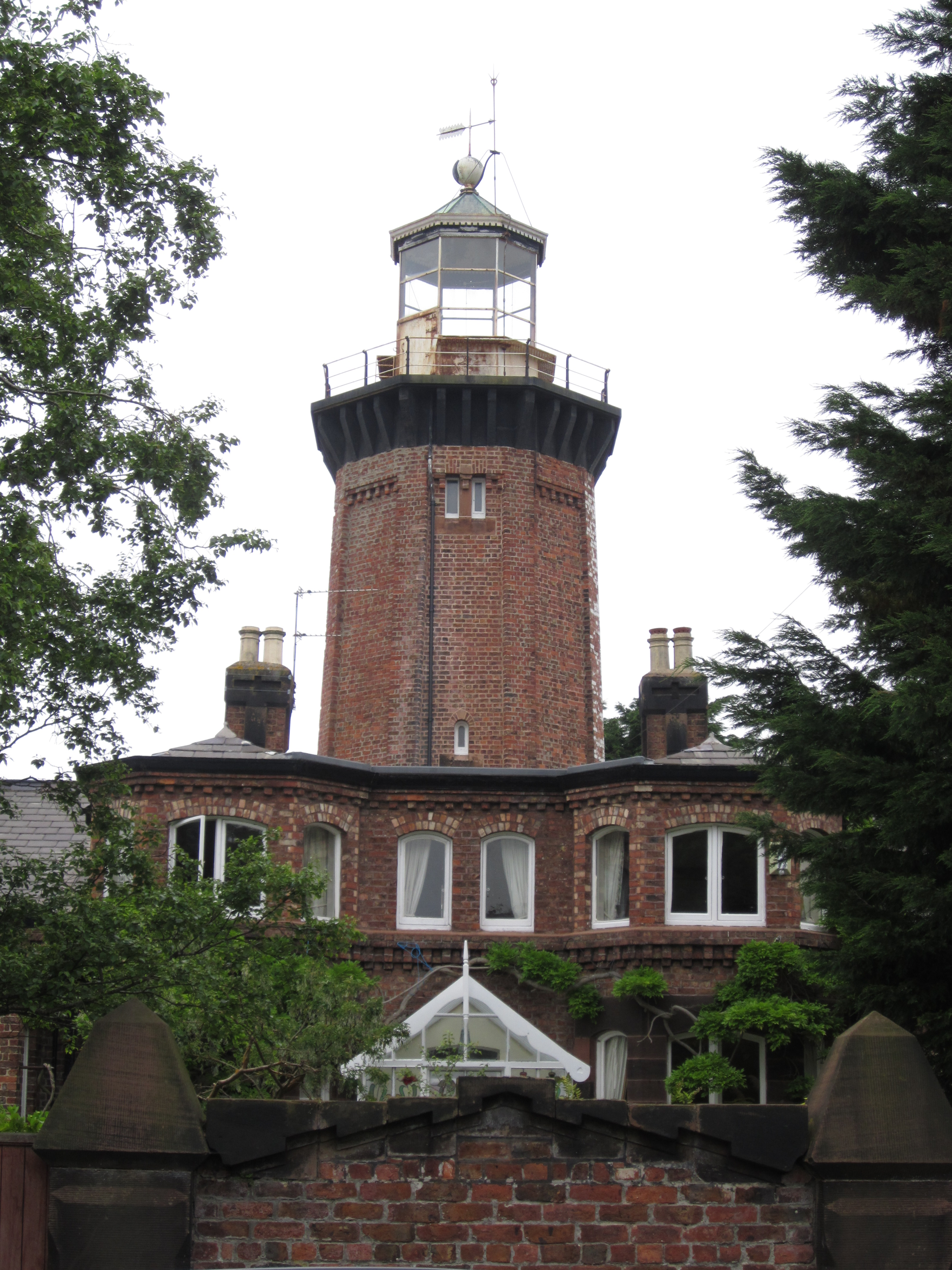 Hoylake Lighthouse, Wirral, Merseyside, England.